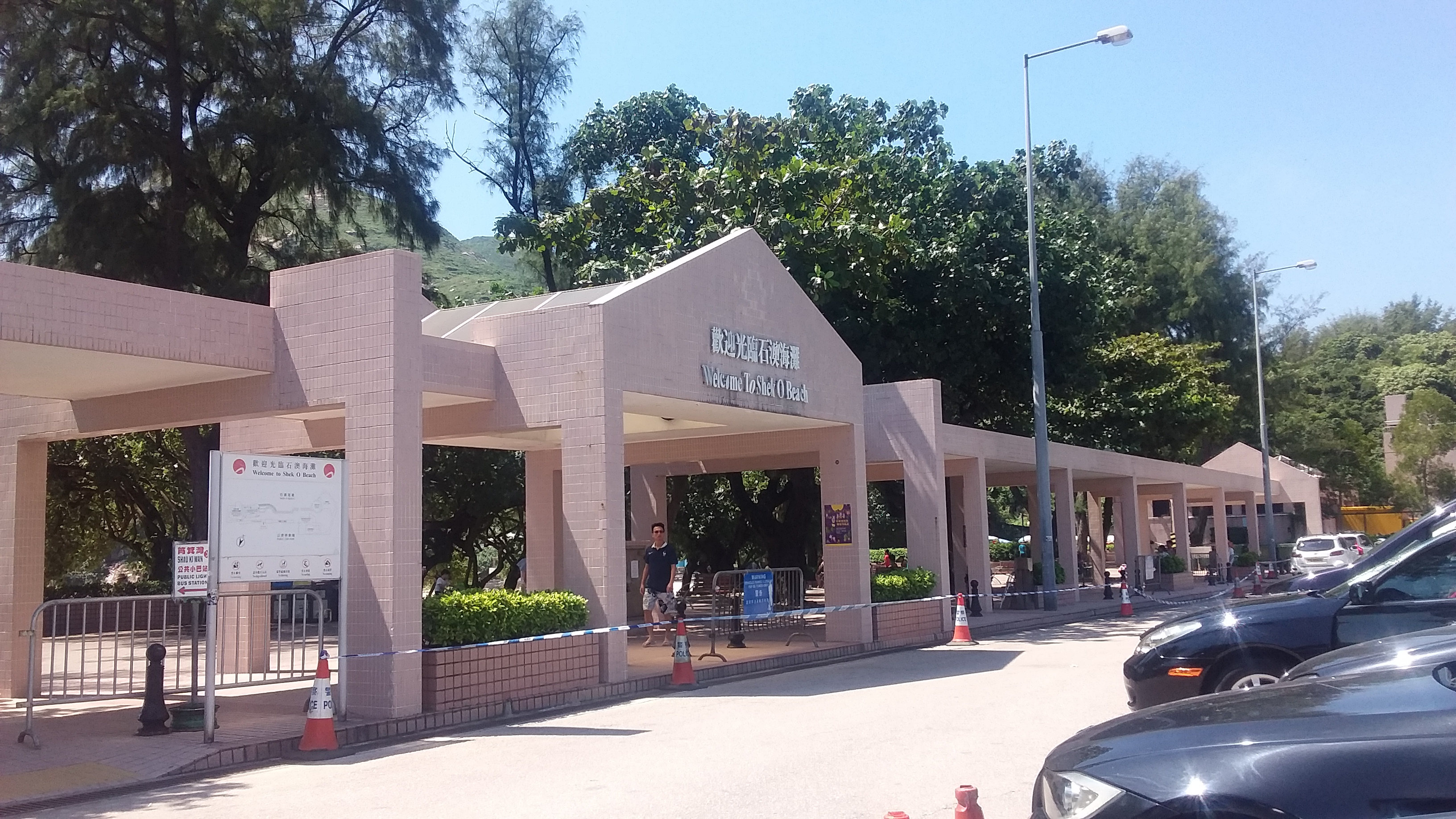 Hong Kong beach